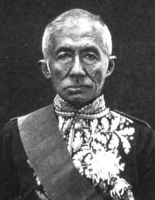 King Mongkut of Siam, Bangkok (European Dress), 1865 - 1866. Modern albumen print from wet-collodion negative, by John Thomson.